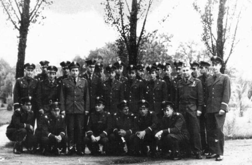 Dowódca 1 szkolnej eskadry 64 LPS kpt. pil Edward Siedlaczek, piloci instruktorzy Kisiel, Bieniaszewski oraz podchorążowie z OSL-4 po zakończonym szkoleniu w Przasnyszu, Dęblin, 1962r.